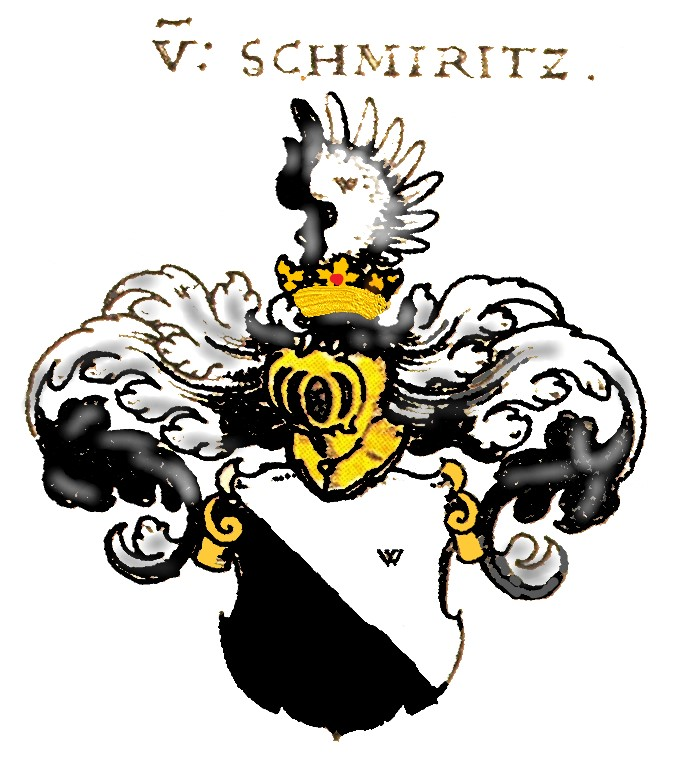 Coat of arms of Smiřický von Smiřice